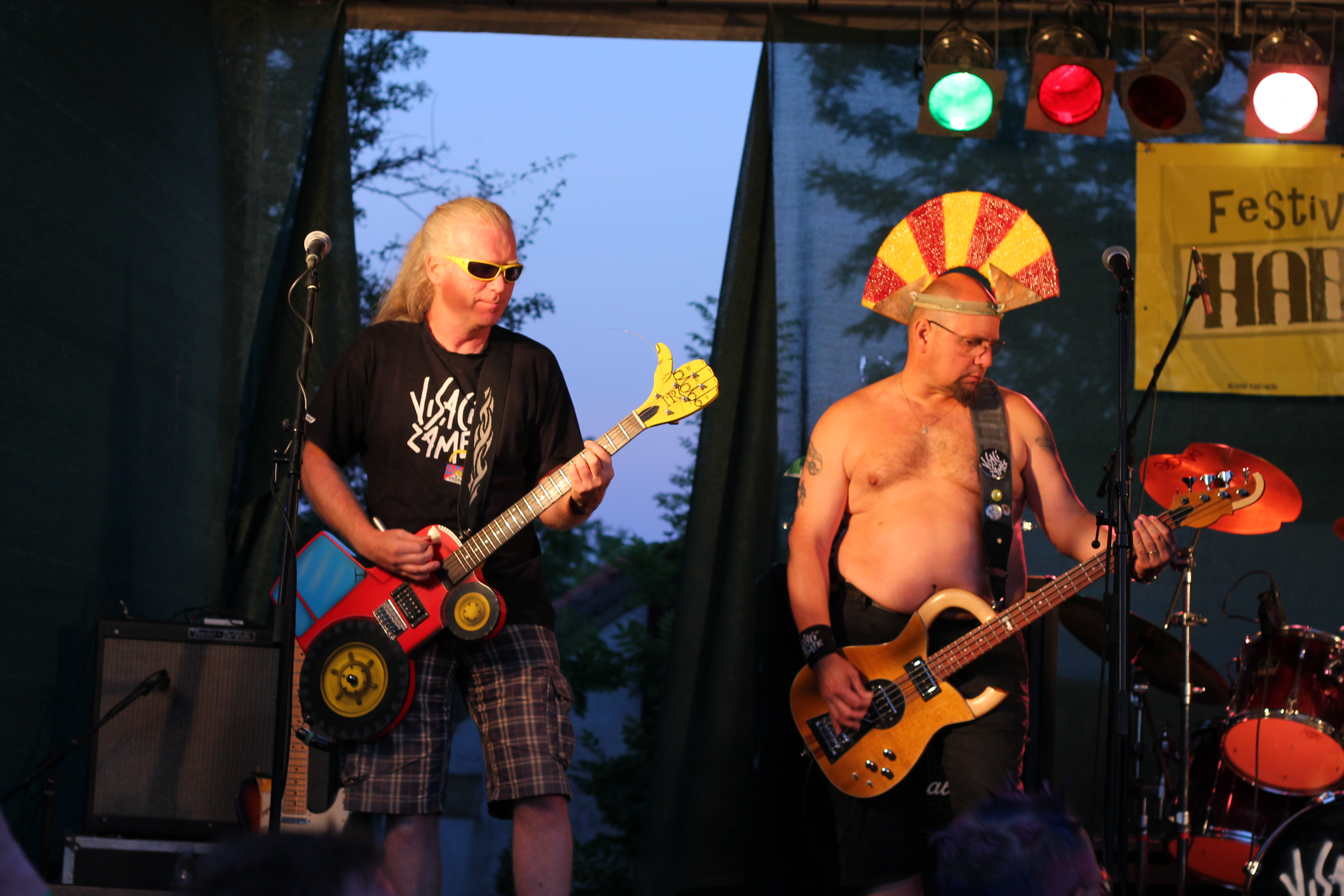 Concert of the band Visací zámek at Habrovka festival, Prague 6. 6. 2014